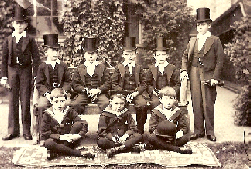 Author: St Aubyn's School Trust, Company Registration Number 1218766, Registered Charity Number 270143